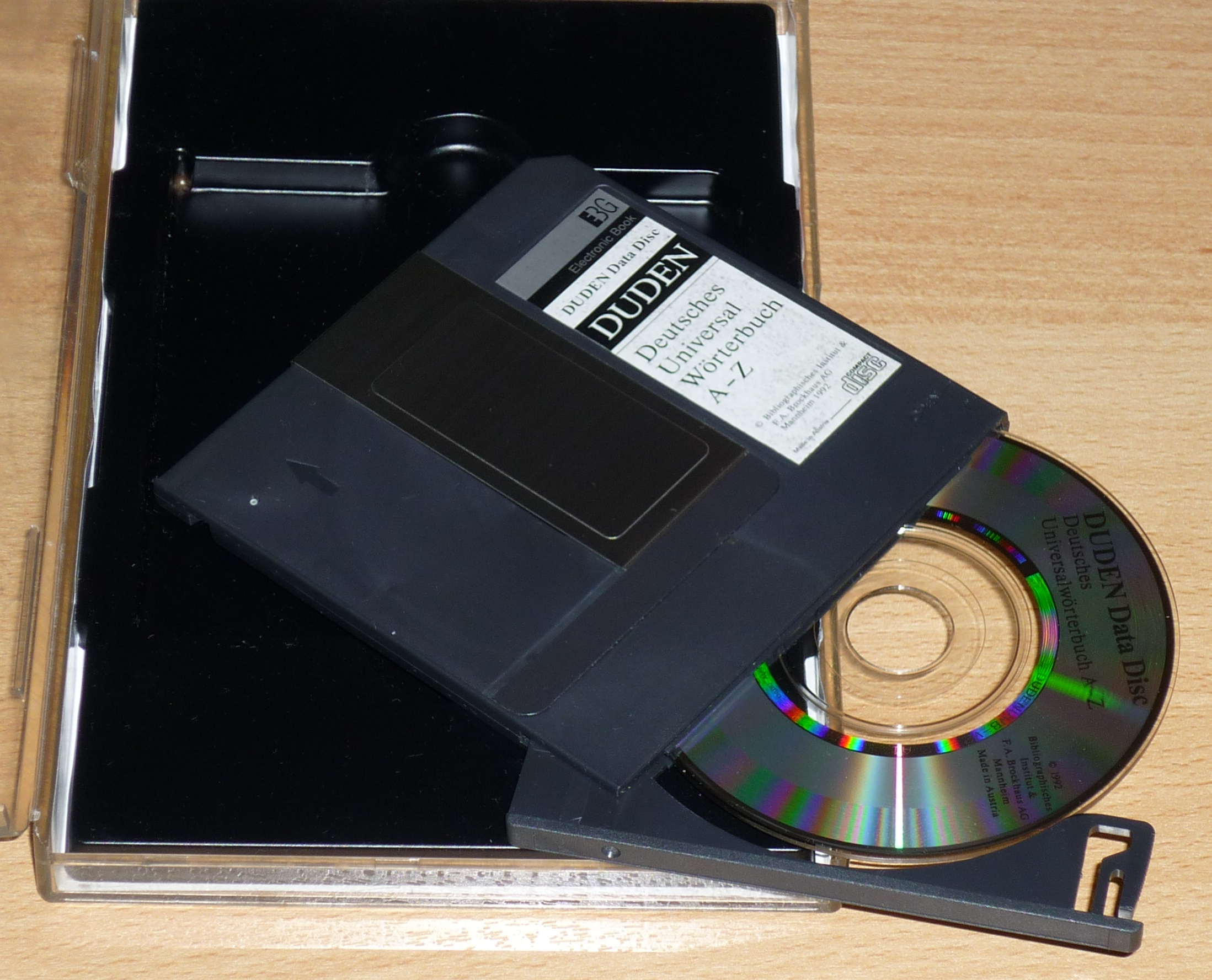 German dictionary "Duden Deutsches Universal-Wörterbuch A-Z" in Sony's early e-book format "EBG" for the Data Discman. Caddy opened to show the mini CD-ROM contained. This edition published in 1992.